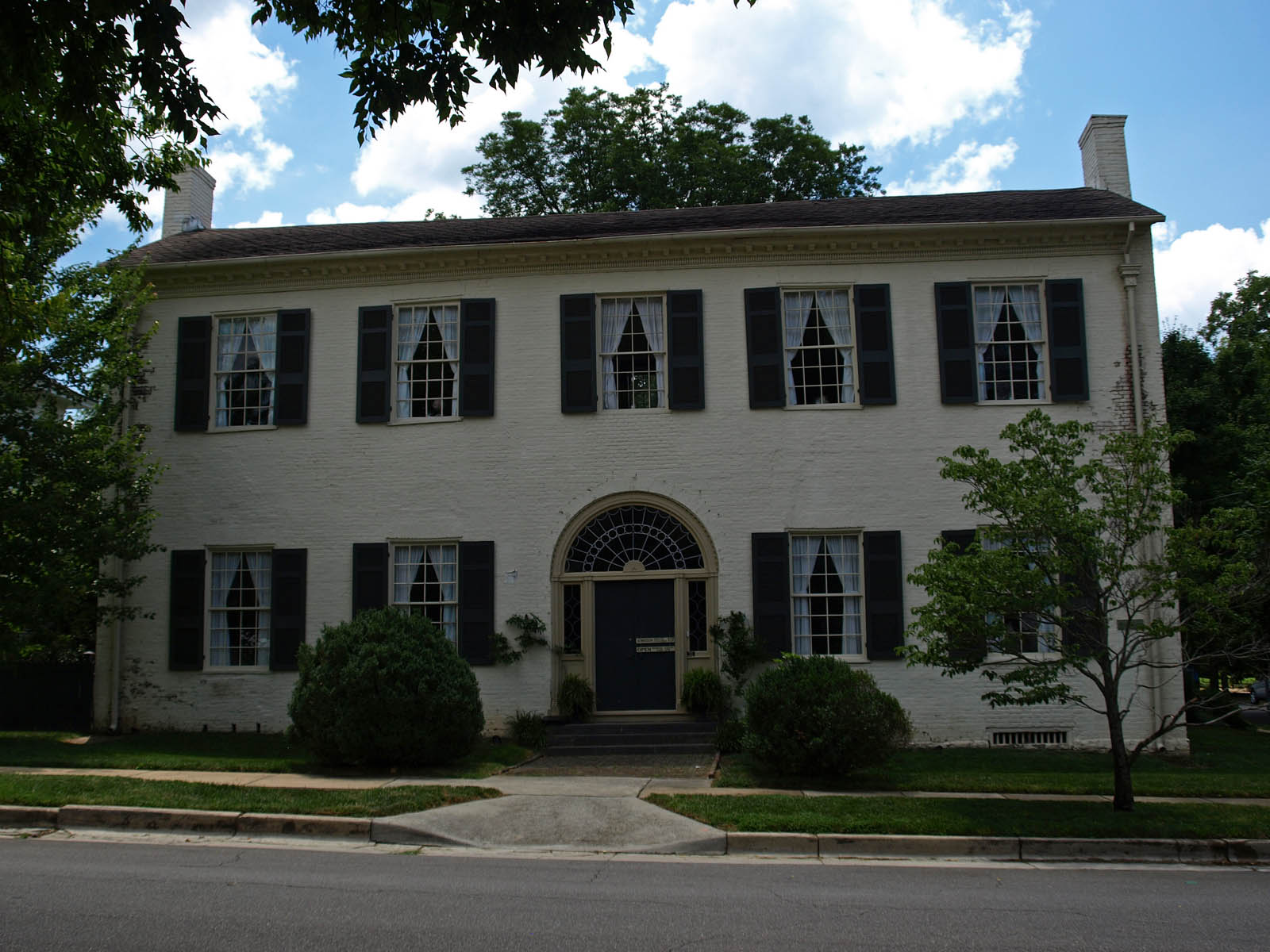 The Weeden House Museum, in the Twickenham Historic District in Huntsville, Alabama. Built in 1819, the Weeden House is the oldest known surviving house in Alabama.